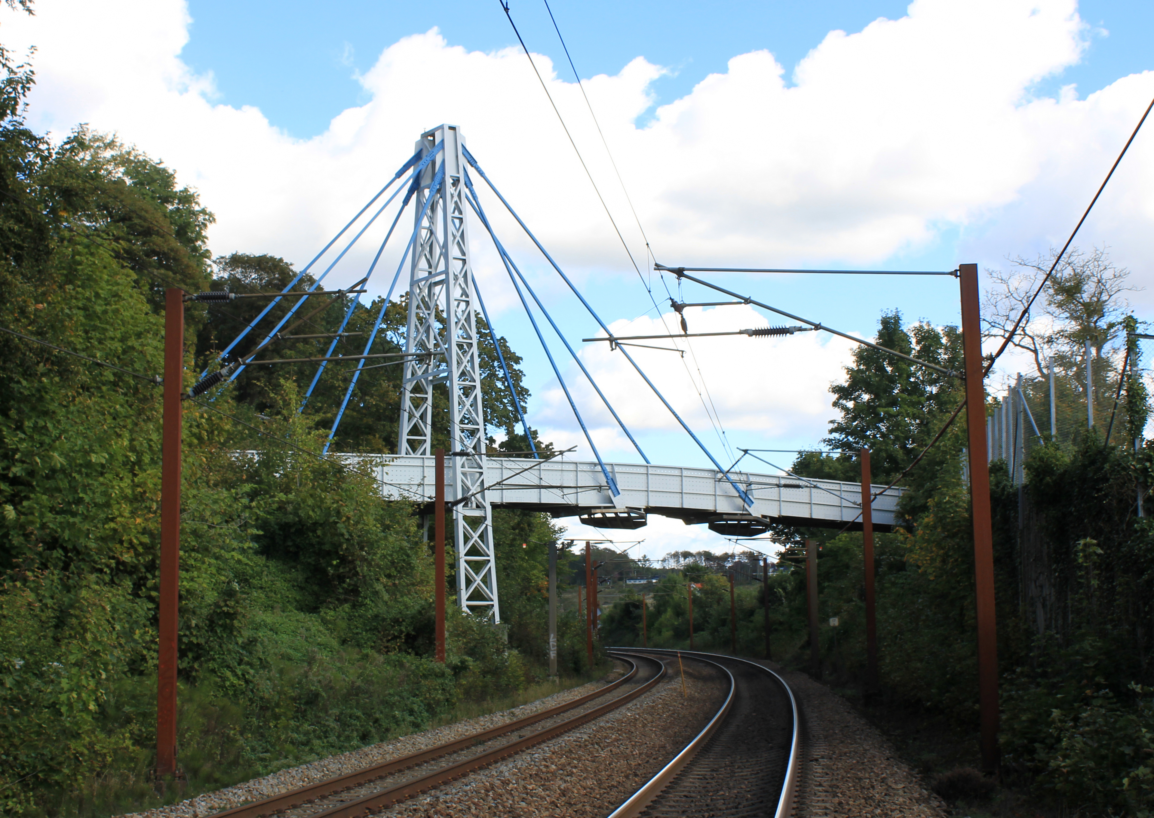 Fiber Line Bridge is one of the world's largest fiberglass composite bridges and the first to cross a railway line, which increases the requirements for the bridge. It is located in Kolding, Denmark. The bridge was built in 1997 as a collaboration between the Municipality of Kolding, FiberLine Composites and Rambøll. It is Scandinavia's first composite bridge. The bridge weighs 12 tonnes, which is half of a bridge in metal / concrete. Another of the advantages of fiberglass composite is that it is almost maintenance-free. Since its construction in 1997, there have only been removed graffiti and algae. The bridge is also not affected by rain, frost and salt. Lifespan is at least 100 years. Technical data: Length, total 40 m Length, bridge section 1 27 m Length, bridge section 2 13 m Width, total 3.2 m Tower, height 18.5 m Total weight 12 tons Capacity 500 kg/m2 Capacity, running load 5 tons Maximum wheel pressure 1.8 tons The maximum deflection L/200 13 cm Number stag 8Dansk: Fiberline-broen er en af verdens største glasfiber-kompositbroer og den første der krydser en jernbanelinje, hvilket øger kravene til broen. Den ligger i Kolding, Danmark. Broen blev opført i 1997, som et samarbejde mellem Kolding Kommune, Fiberline Composites og Rambøll. Det er Skandinaviens første kompositbro. Broen vejer kun 12 tons, hvilket er det halve af en bro i metal/beton. En anden af fordelene ved glasfiber-komposit er, at den er næsten vedligeholdelsesfri. Siden opførelsen i 1997, er der kun blevet fjernet graffiti og alger. Broen påvirkes heller ikke af regn,frost eller salt. levetid er mindst 100 år. Tekniske data: Længde, total 40 m Længde, brosektion 1. 27 m Længde, brosektion 2. 13 m Bredde, total 3,2 m Tårn, højde 18,5 m Totalvægt 12 tons Bæreevne 500 kg/m2 Bæreevne, kørende last 5 tons Maksimum hjultryk 1,8 tons Maksimum nedbøjning L/200 13 cm Antal stag 8